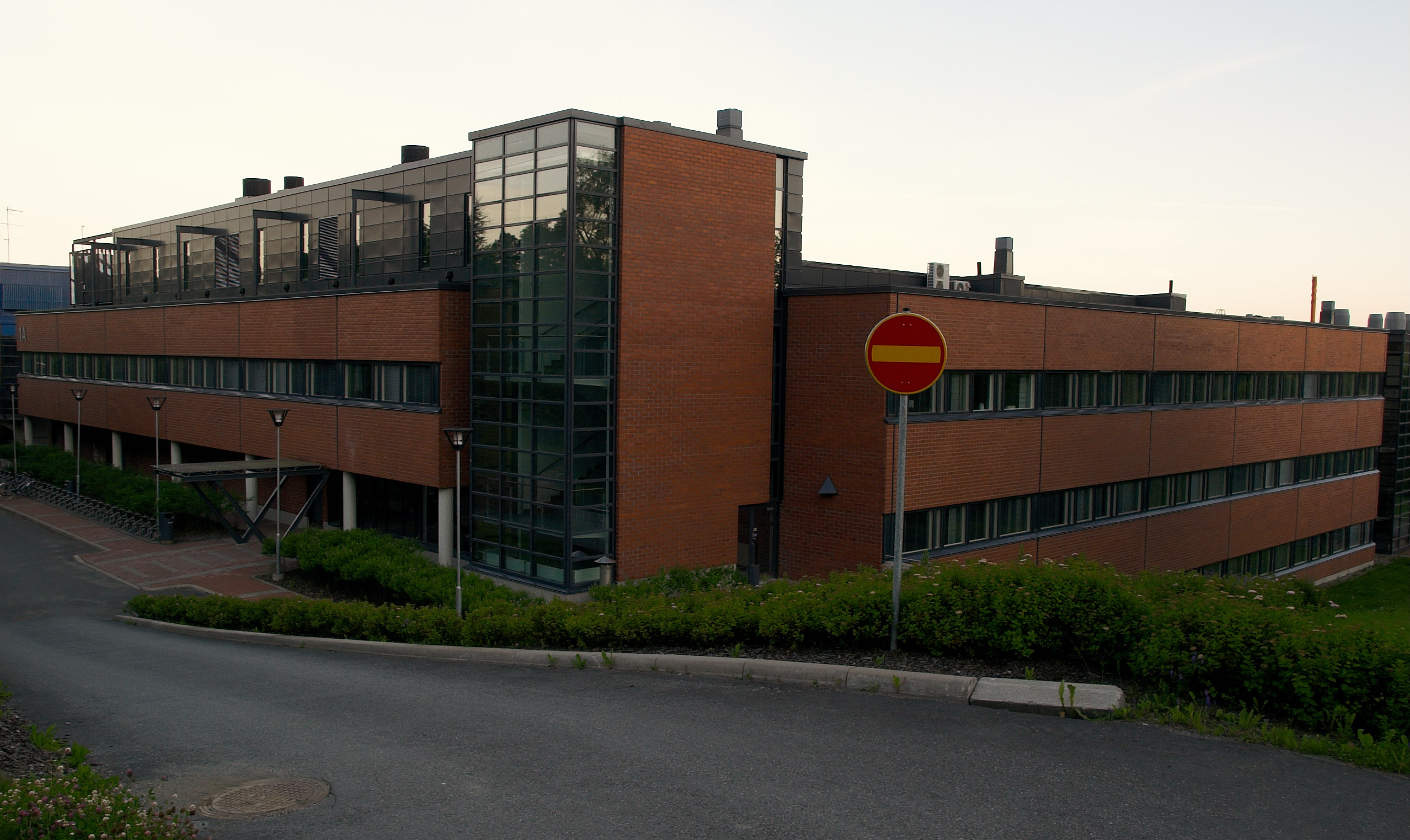 University of Kuopio, Mediteknia -building.